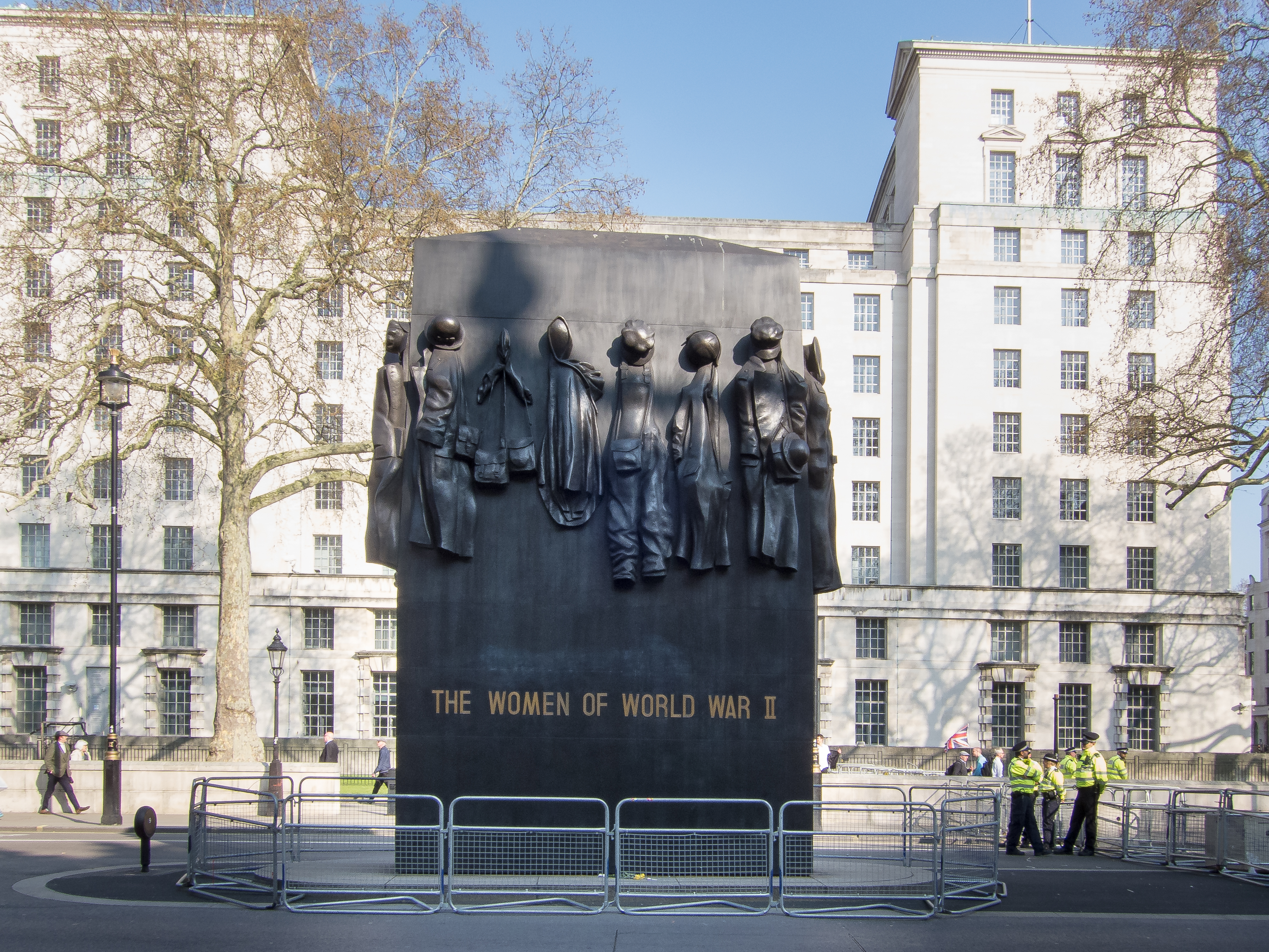 To the Women of World War II, Monument